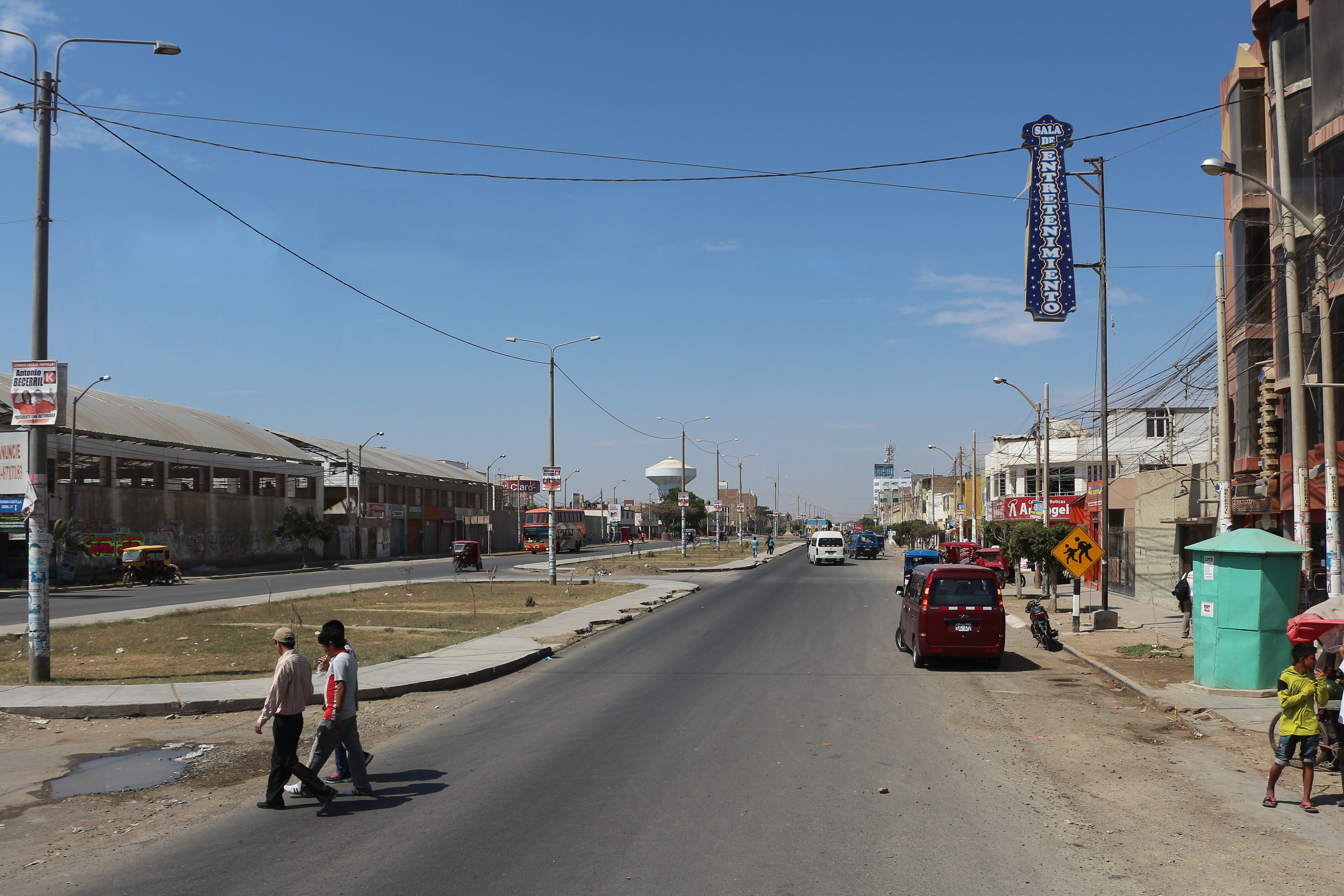 Street in Lambayeque, Peru